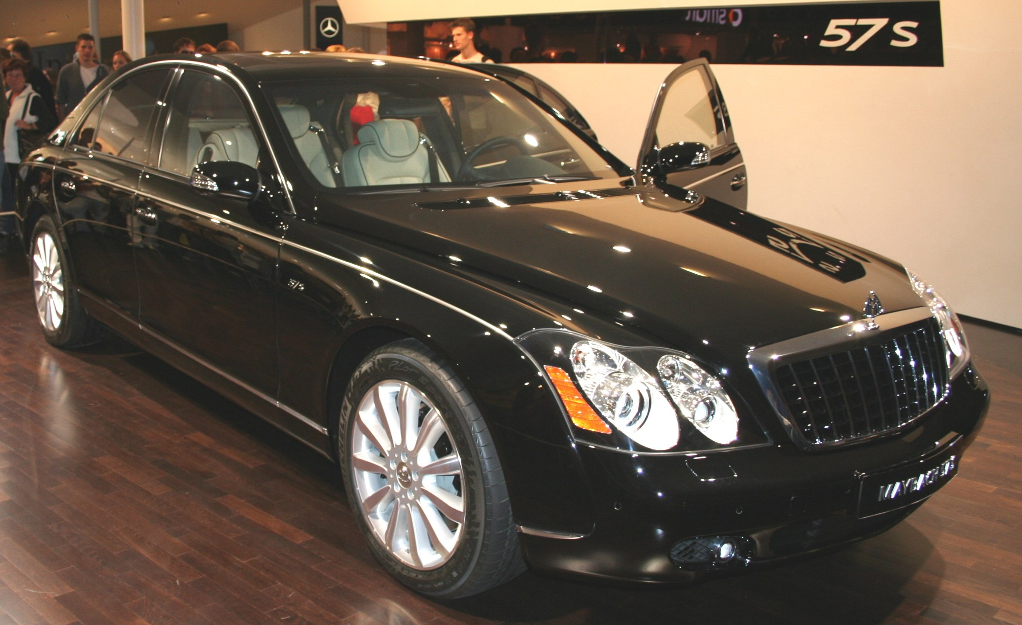 Maybach 57S on IAA 2005 Photo taken by Ygrek, 17th September 2005.